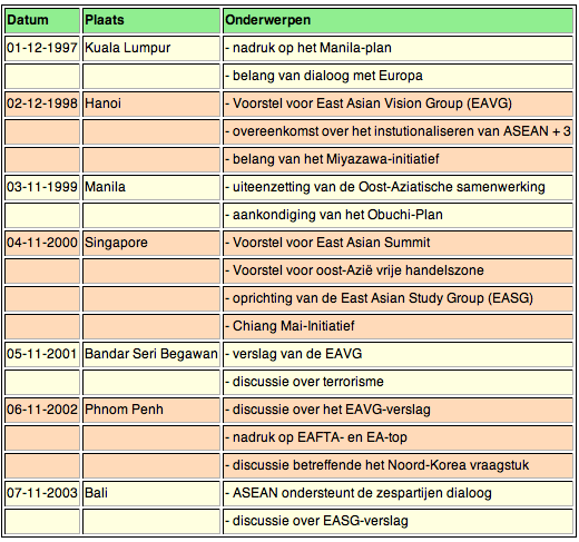 Table with most important points from the different ASEAN+3 meetings. In Dutch.